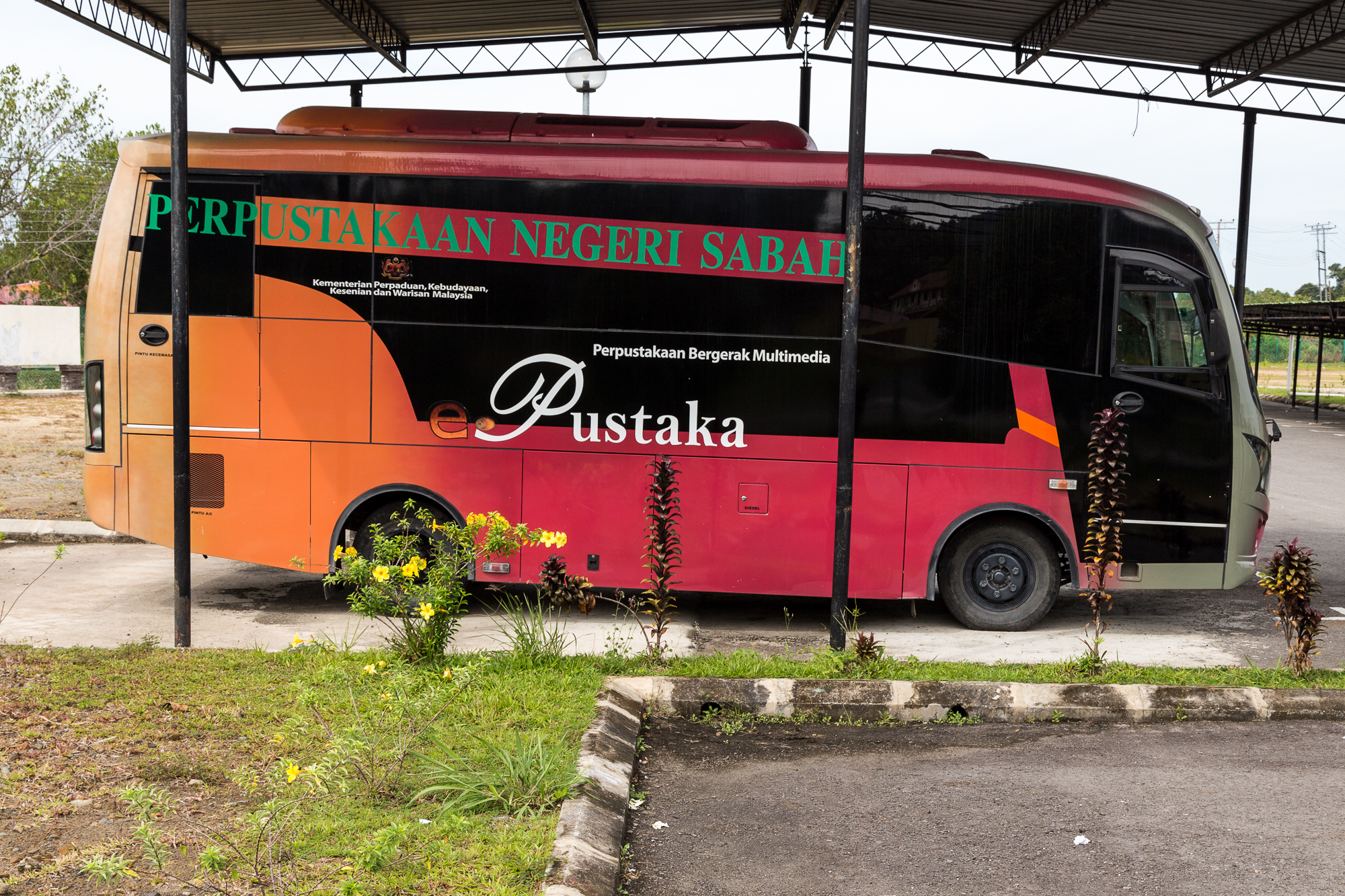 Beaufort, Sabah: Mobile Library, operated by Perpustakaan Negeri Sabah Cawangan Beaufort (Sabah State Library, Beaufort Branch)